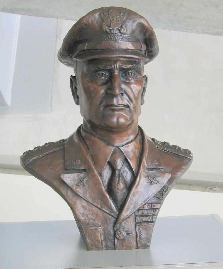 A bust of Ira C. Eaker (1896-1987), the US General. Taken at the Imperial War Museum, Duxford, UK.